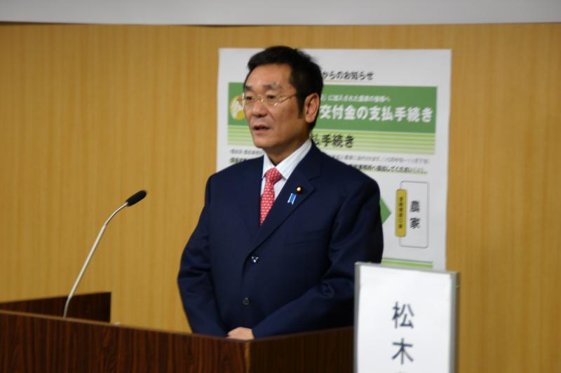 Kenko Matsuki, Parliamentary Secretary of Agriculture, Forestry and Fisheries, addressed at the Hokkaido Agriculture Office in Sapporo City, Hokkaidō on November 8, 2010. (For terms of use, see 北海道農政事務所/リンクについて・著作権.)